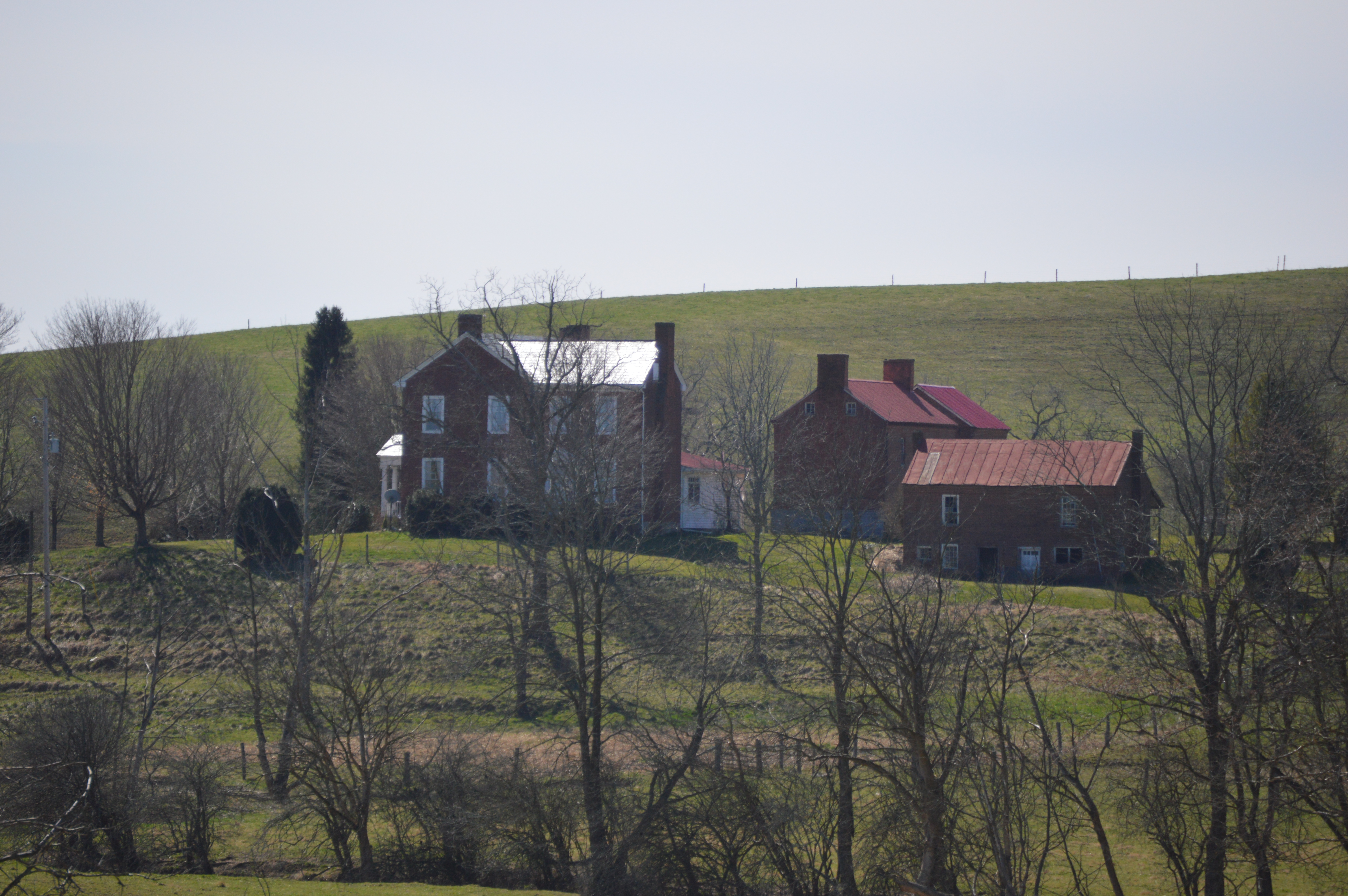 Distant view from State Route 100 of Back Creek Farm, located west of Highland in Pulaski County, Virginia, United States. Here was fought the Battle of Cloyd's Mountain in May 1864. The farmstead is listed on the National Register of Historic Places.